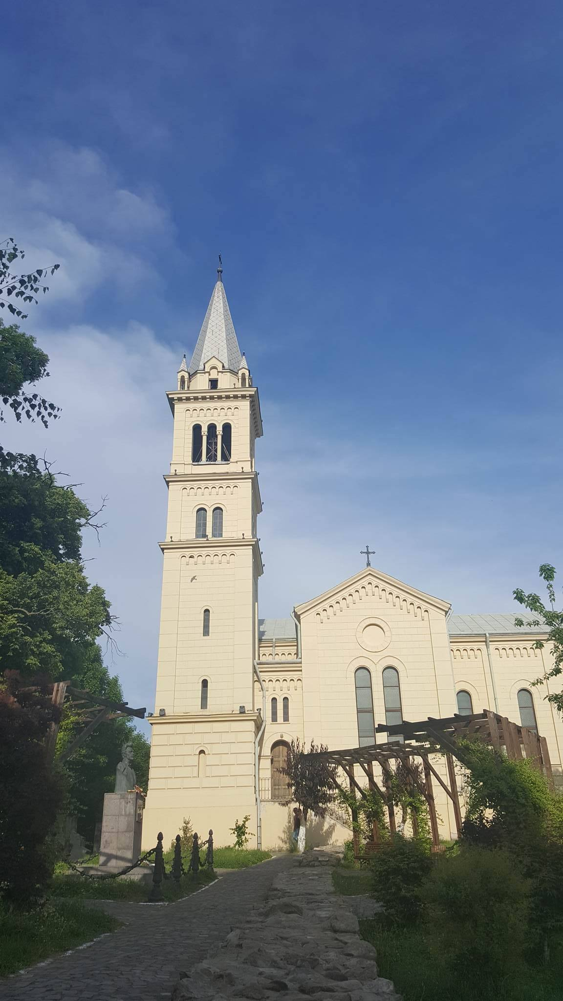 St. Joseph Roman Catholic Church